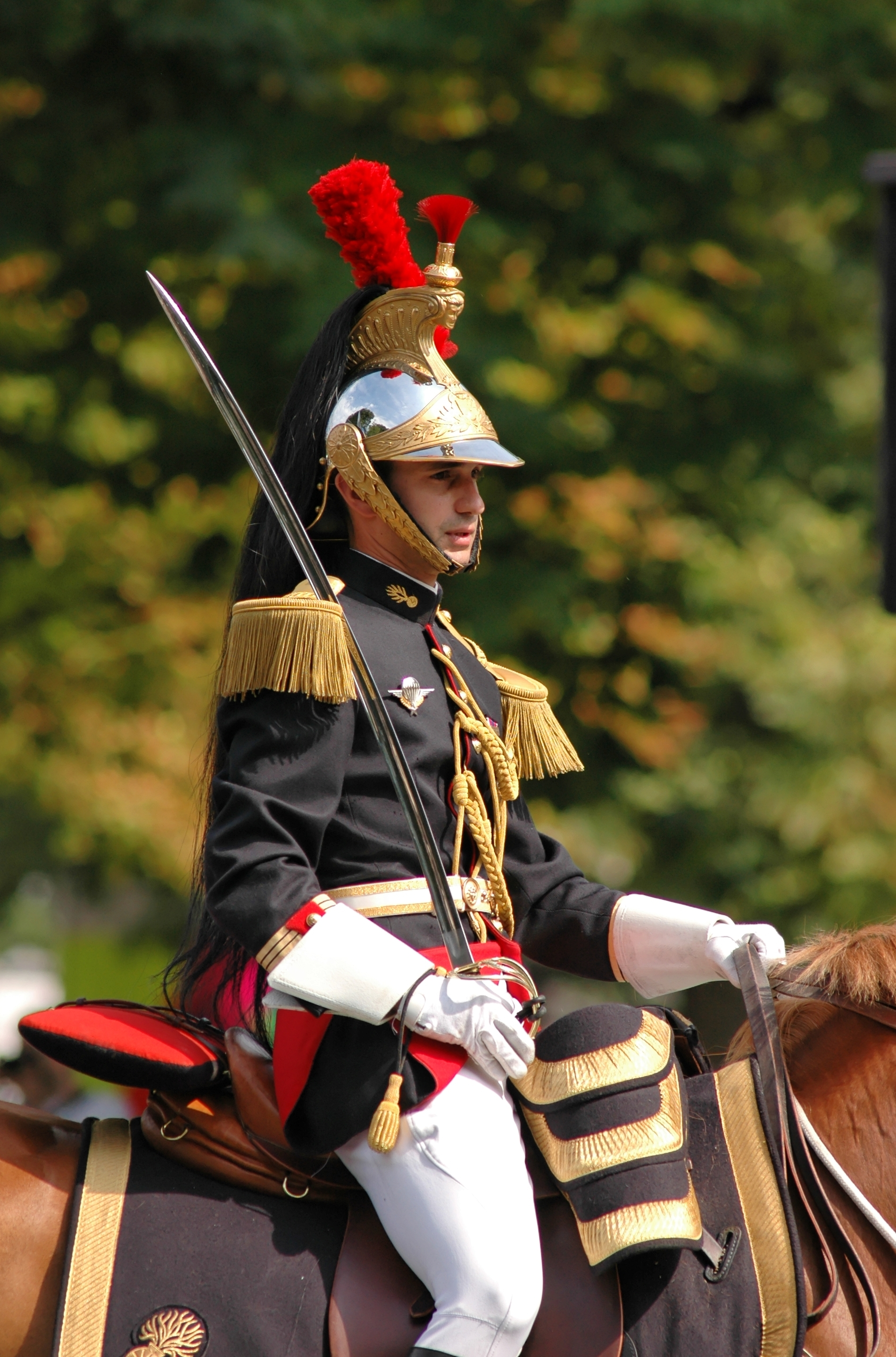 A Captain of the Cavalry Regiment of the French Republican Guard during the 2007 Bastille Day military parade on the Champs-Élysées.